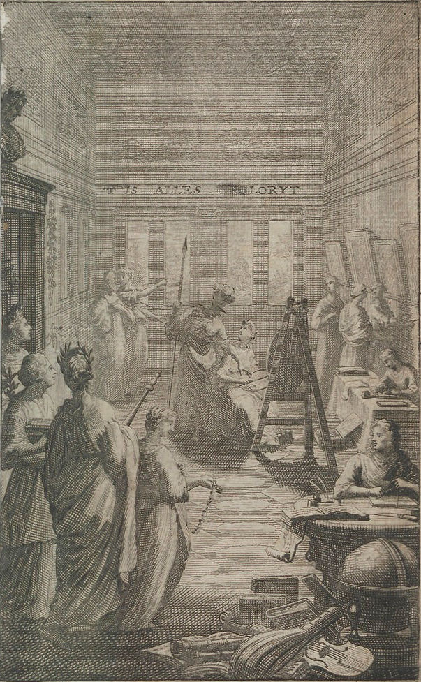 Title page illustration showing art lessons to women in an artist's studio, from 1692 book on the art of painting and paint-mixing called De groote waereld in 't kleen geschildert, of schilderagtigtafereel van 's weerelds schilderyen, kortelijk vervat in sesboeken, verklarende de hooftverwen, haare verscheidemengelingen in oly, en der zelver gebruik